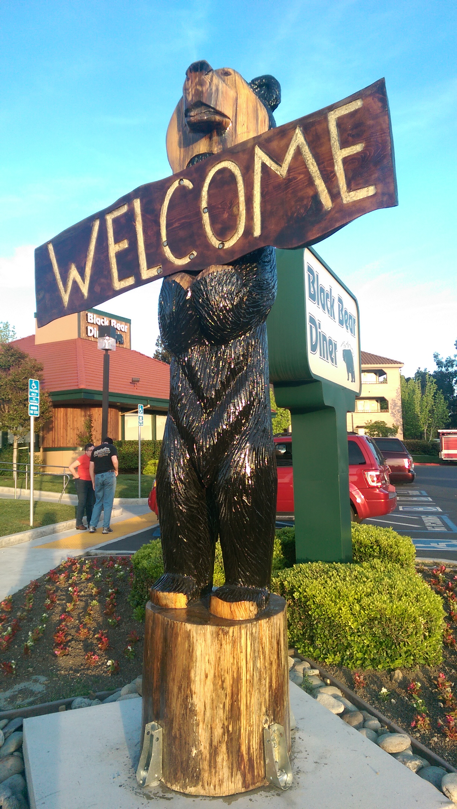 Carved wood bear sign at the Black Bear Diner, Vallejo, California. Photo by Jim Heaphy.